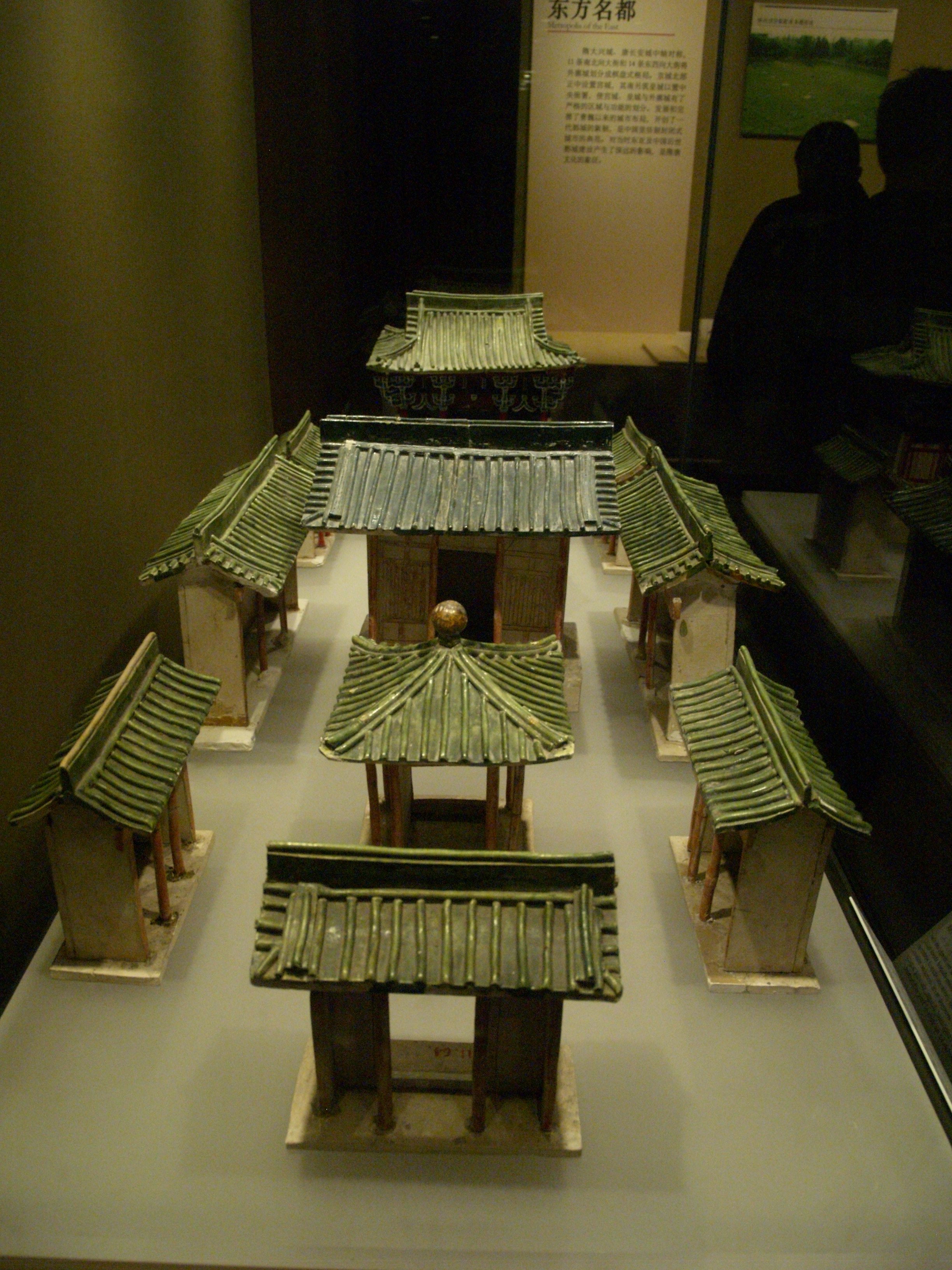 Tang sancai ceramics pottery model mansion, in Shaanxi History Museum Info provided by the museum below: Tri-colored Model of Quadrangle Tang Dynasty (618-907) Excavated from a Tang Dynasty tomb at Zhongbu village in the western suburbs of Xi'an City This rectangular compound has two sections of courtyards. The buildings on the axle line include central entrance, pyramidal-roofed pavilion, over-hanging gable roofed front hall, artificial mountain and ponds, octagonal pavilion and hip-gable roofed back hall (retiring quarters). The two sides of the central axis are arranged with symmetrically placed side halls. This model is decorated with complicated designs, showing superb craftsmanship which provide precious materials for the study of Tang architecture.